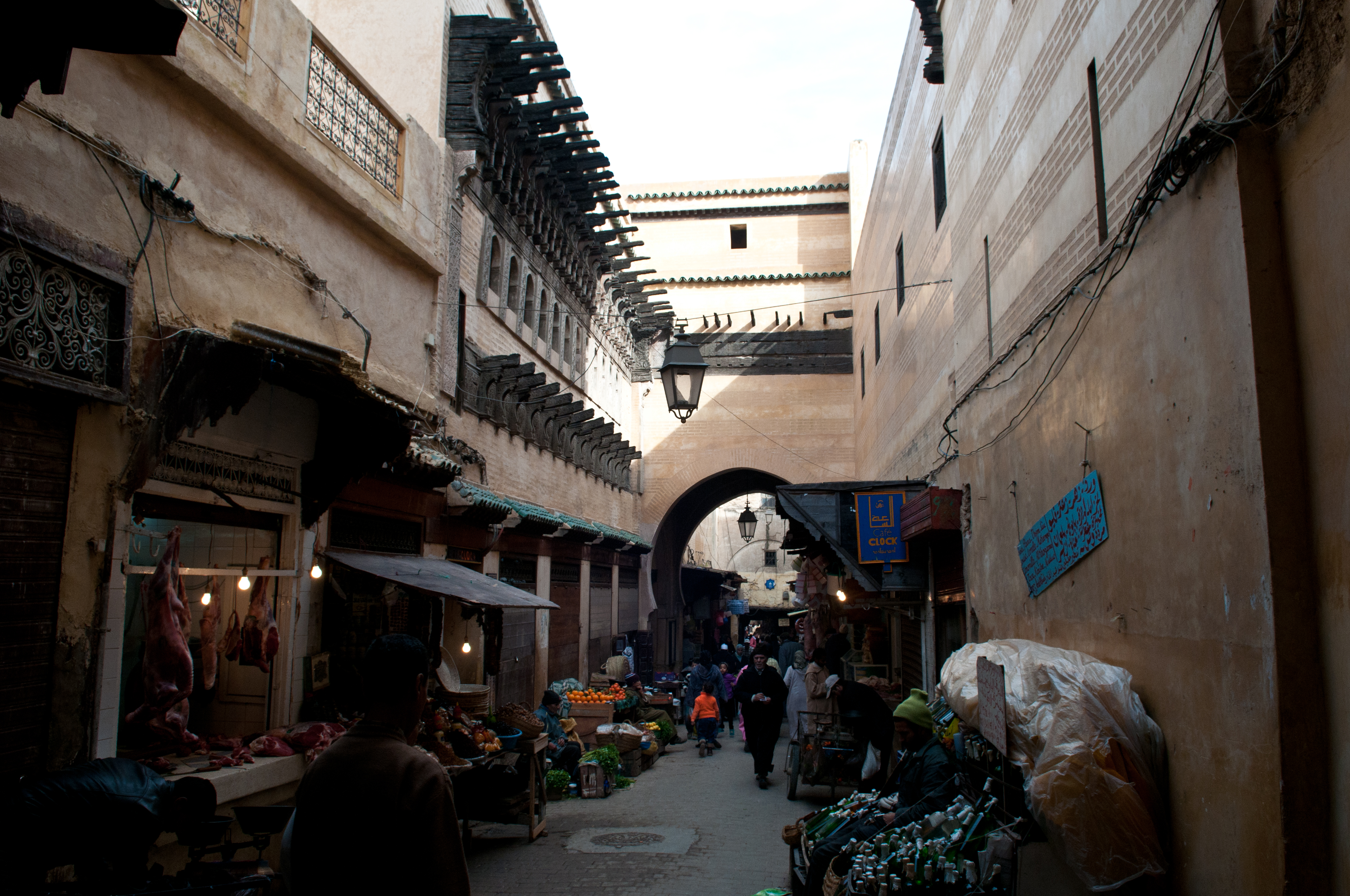 Famous water clock on top of the photo